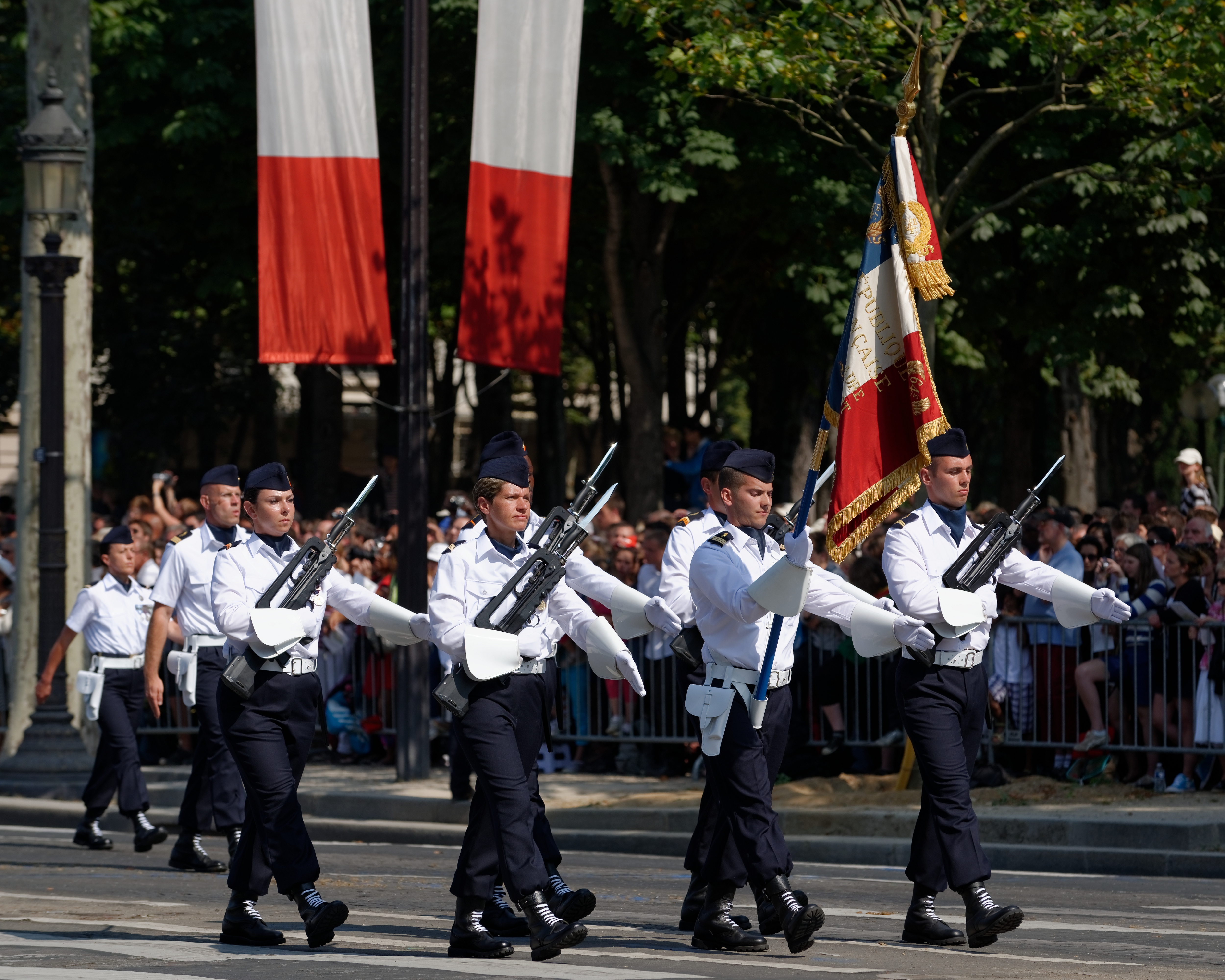 Colour guard of the Évreux-Fauville Air Base in the Bastille Day 2013 military parade on the Champs-Élysées in Paris.